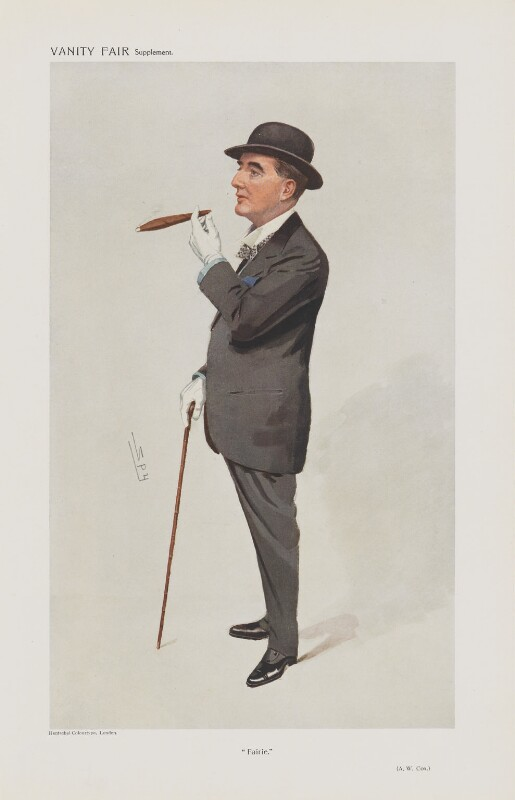 Men of the Day No.1234: Caricature of Alfred W Cox. Caption reads: "Fairie"